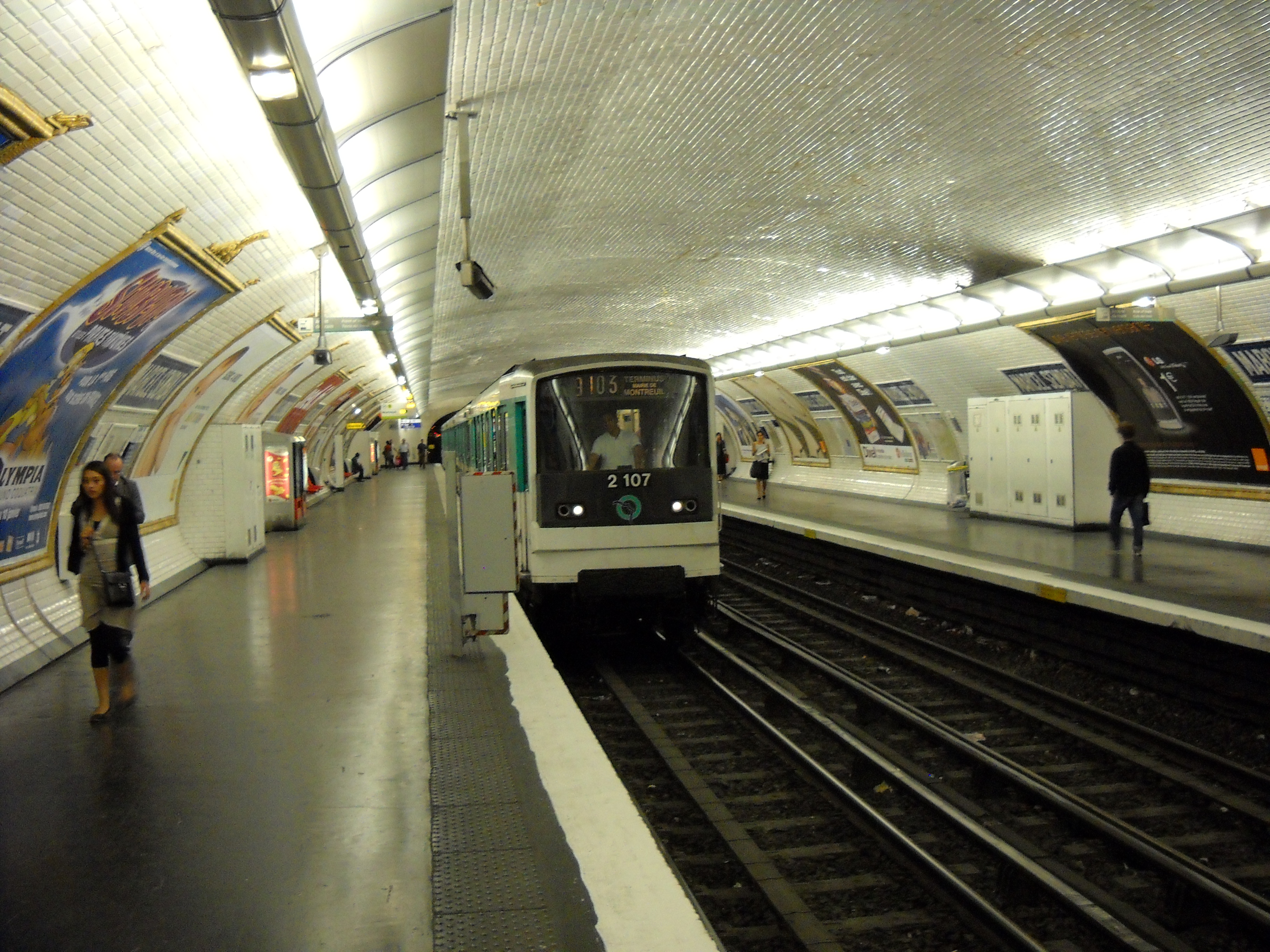 Marcel Sembat station, on Paris metro line 9.